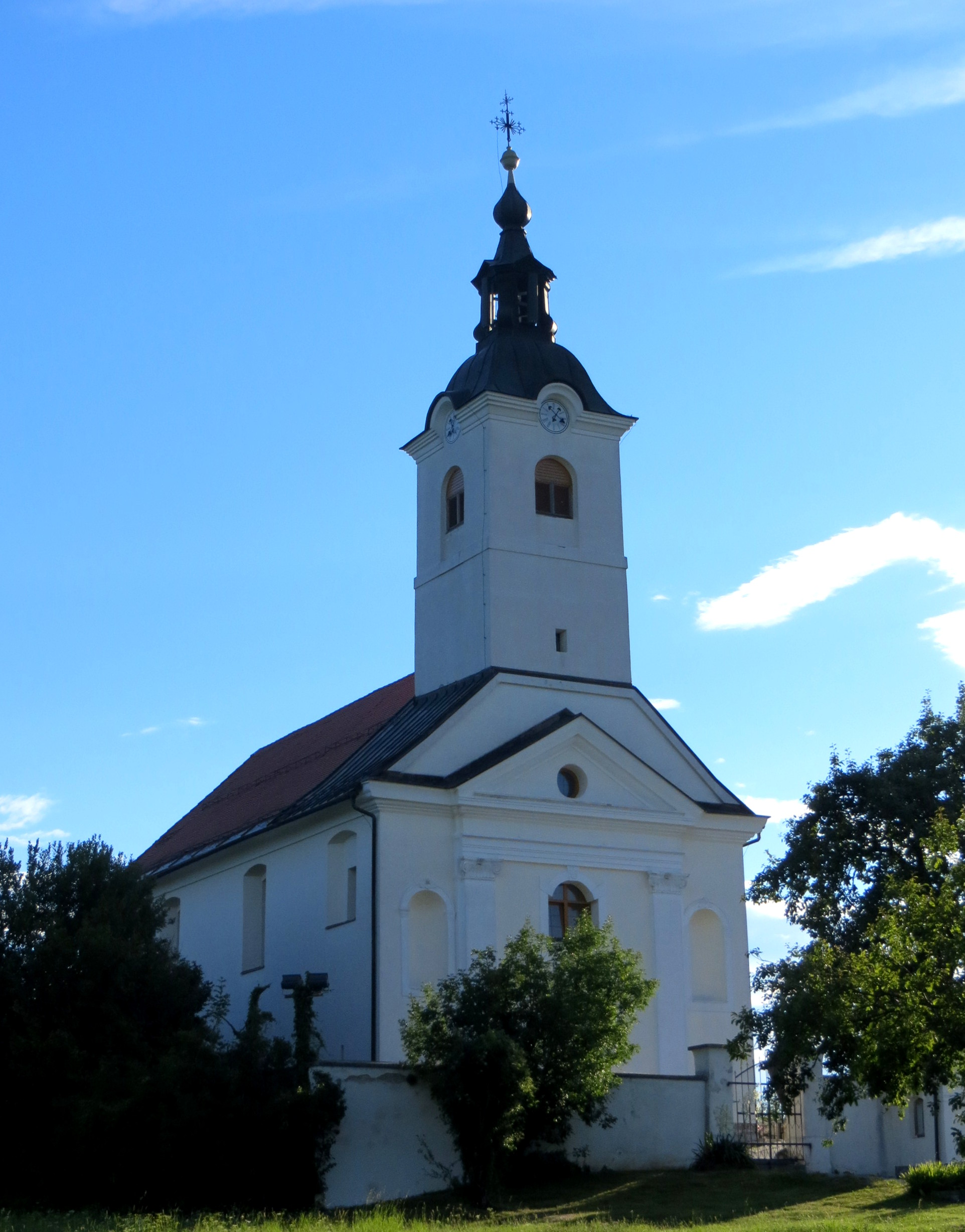 Saint Margaret's Church in Golo, Municipality of Ig, Slovenia